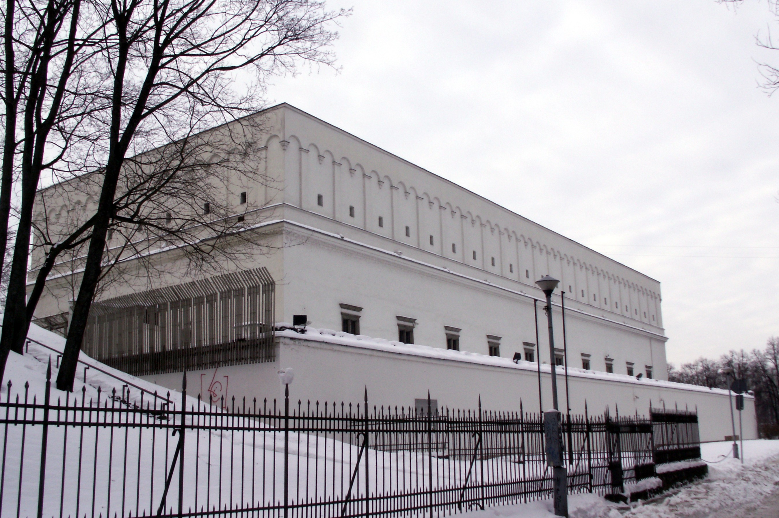 Old Arsenal in Vilnius, Lithuania